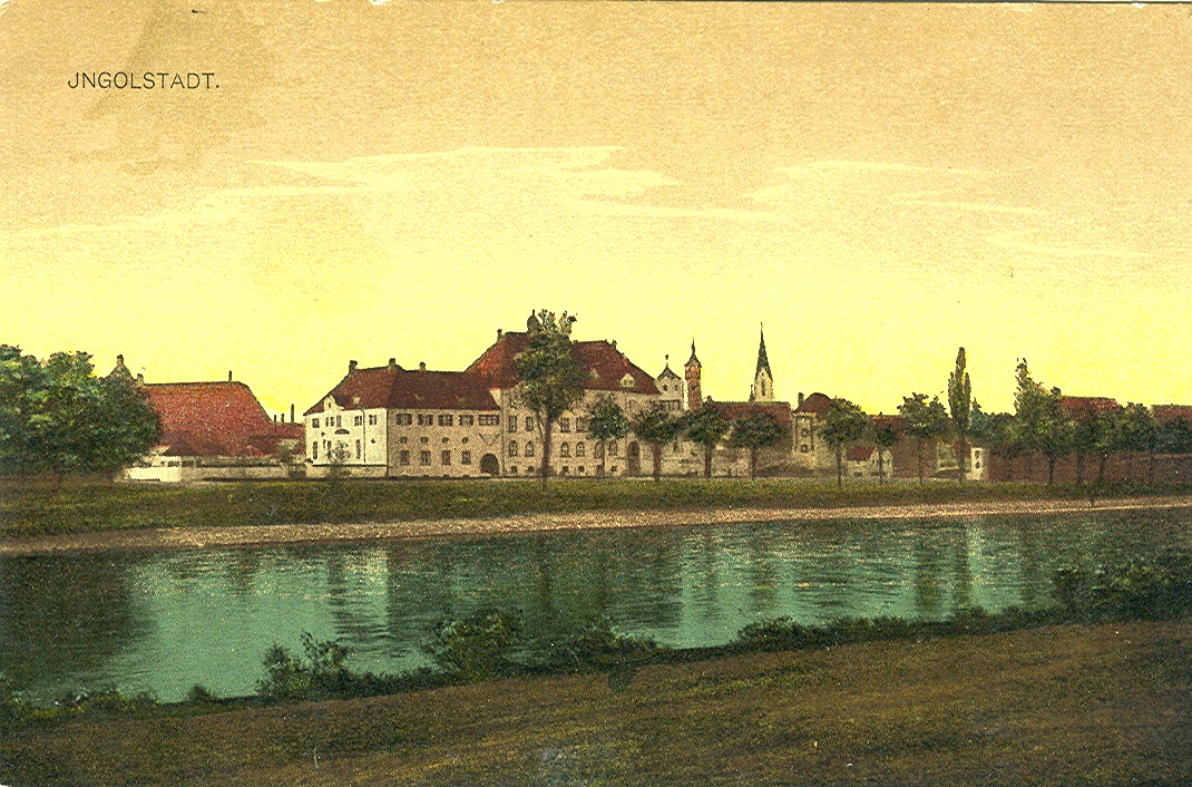 Ingolstadt, view on the left banks of the Danube River with the Königliche Realschule (today Christoph-Scheiner-Gymnasium).